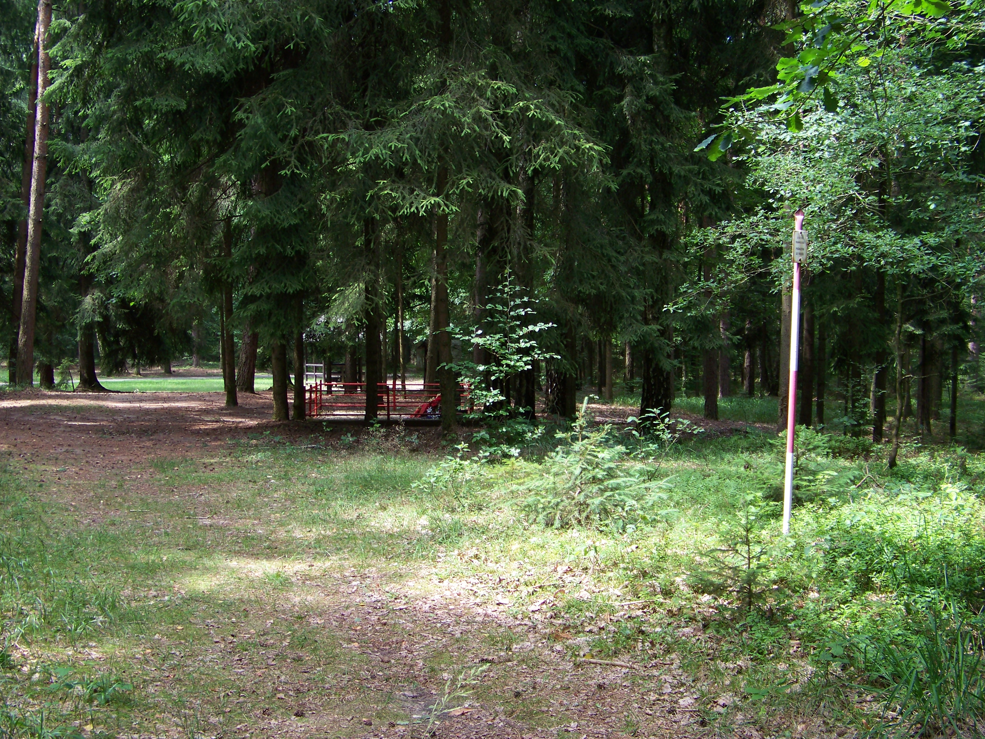 Choceň and Újezd u Chocně, Ústí nad Orlicí District, Pardubice Region, the Czech Republic. Čertův dub hill, a trig point and a monument to the partisan Alexander Bogdanov. - OpenStreetMap(Info)